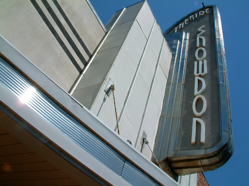 The Snowdon Theatre and its Art Deco sign, located on Montreal, Canada